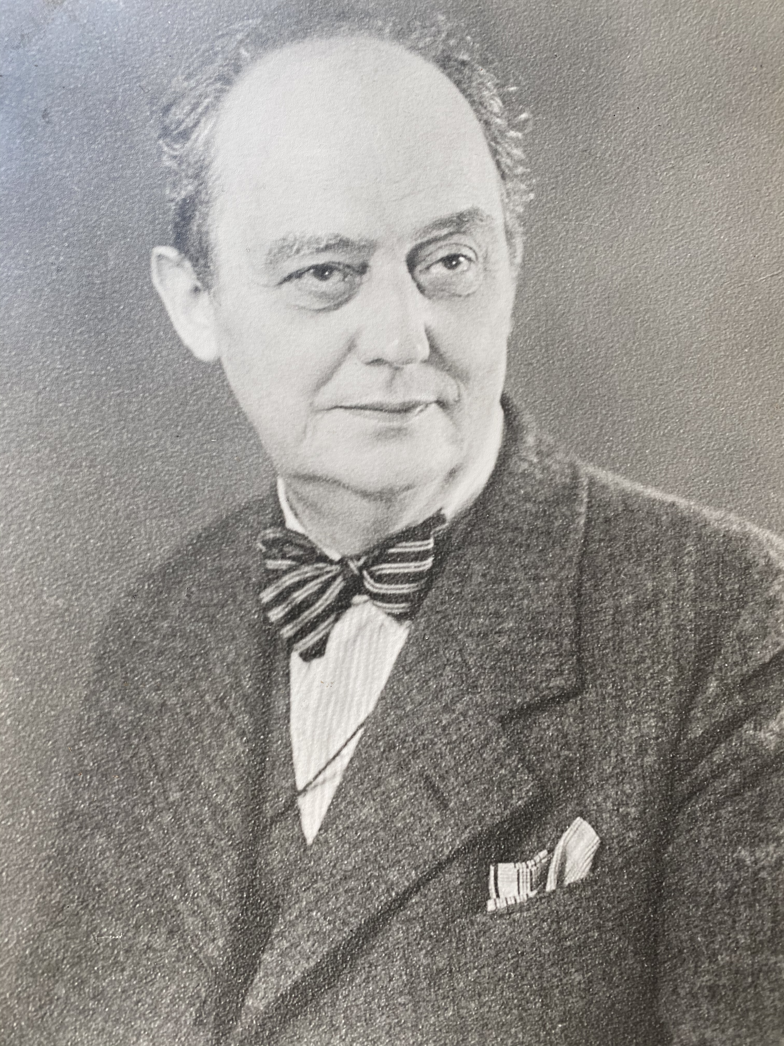 Josef Mockenhaupt born 10. Mai 1877